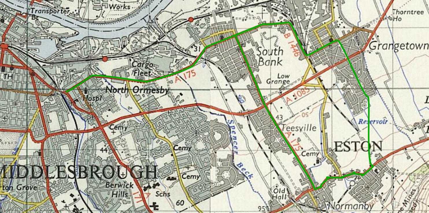 closed 1971